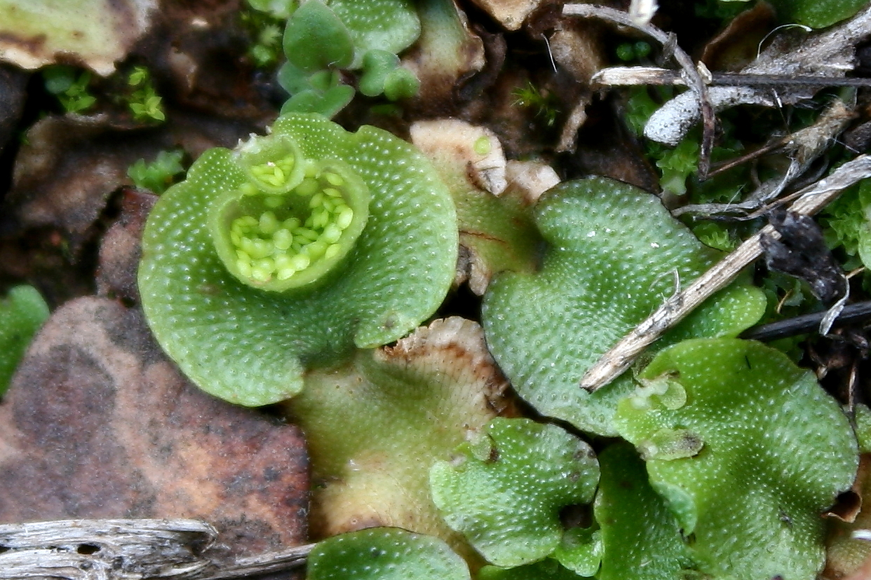 crescent-cup liverwort